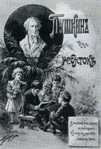 Poems for children by Alexander Pushkin